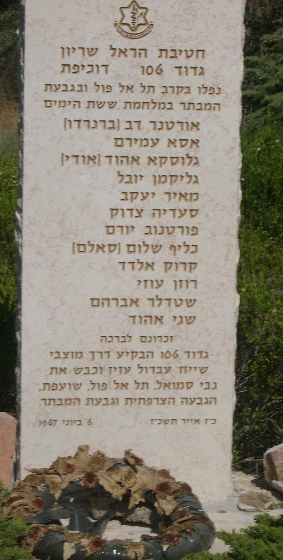 Giv'at HaMivtar Jerusalem, mamorial for solders